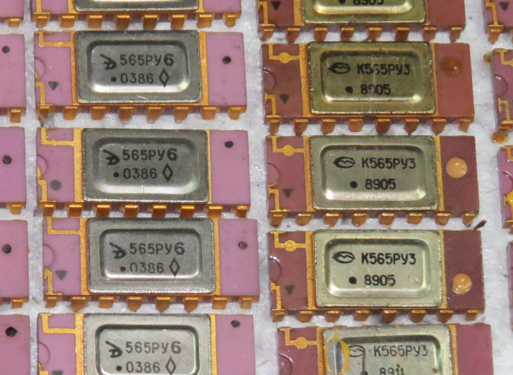 Soviet DRAM chips 565RU6 and K565RU3